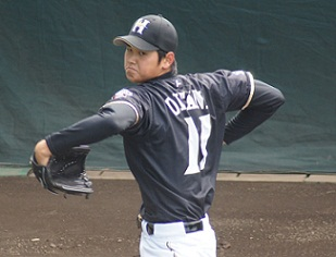 fighters_ohtani_pichi